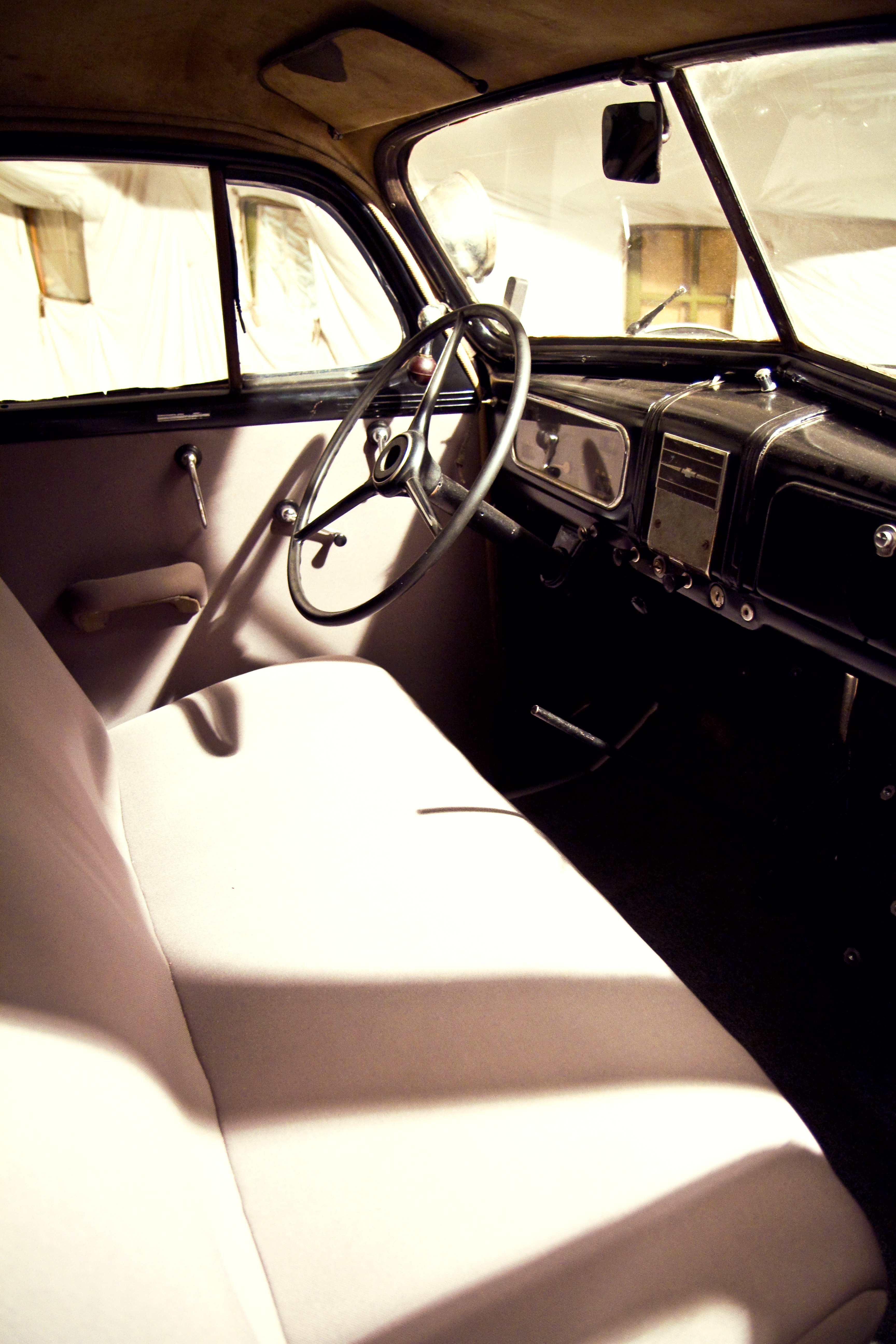 Chevrolet Master Deluxe GA which belonged to Janka Kupała, the Belarusian writer Беларуская (тарашкевіца): Аўтамабіль Chevrolet Master Deluxe GA, які належаў Янку Купалу